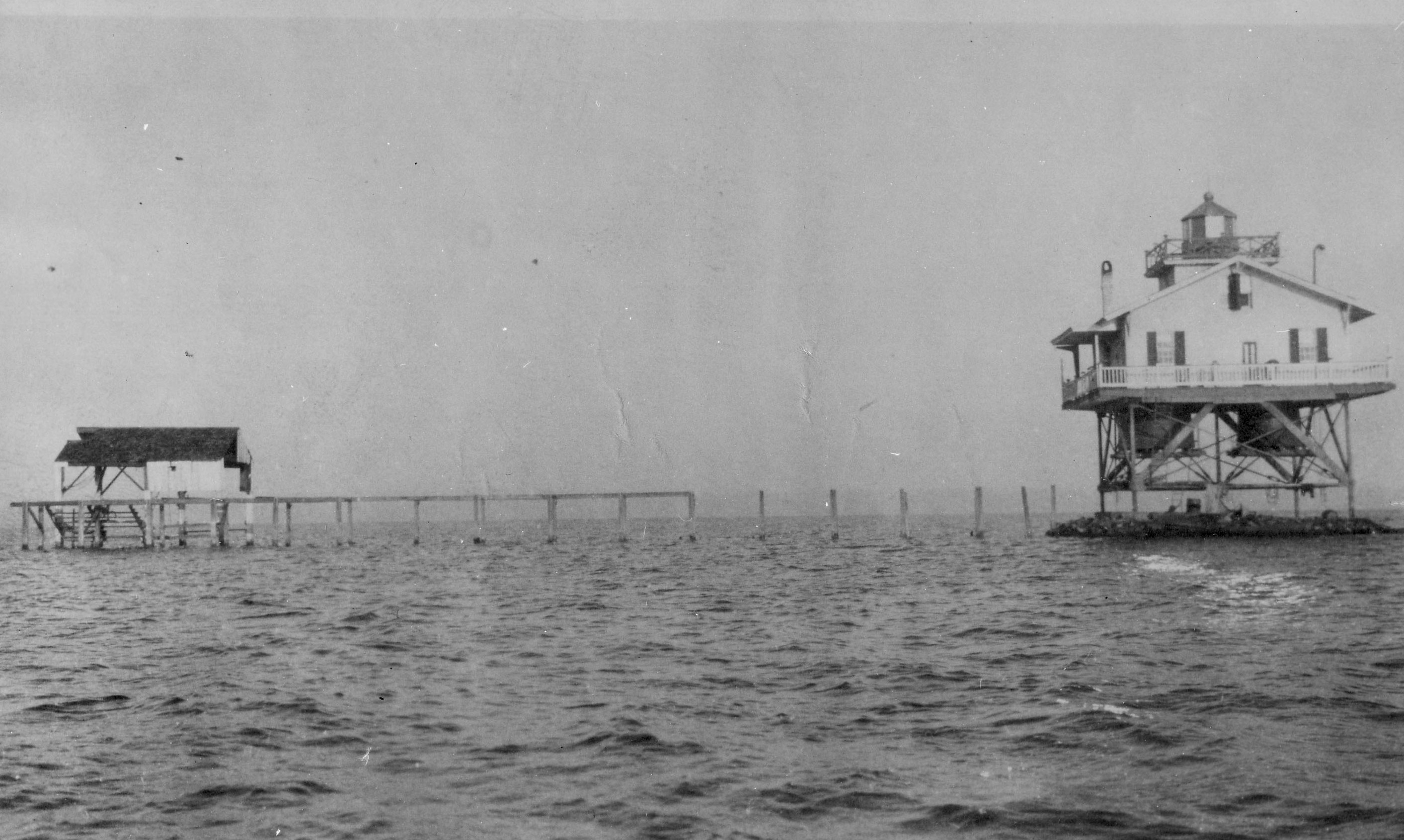 1915 photograph of the 1871 Cat Island Light